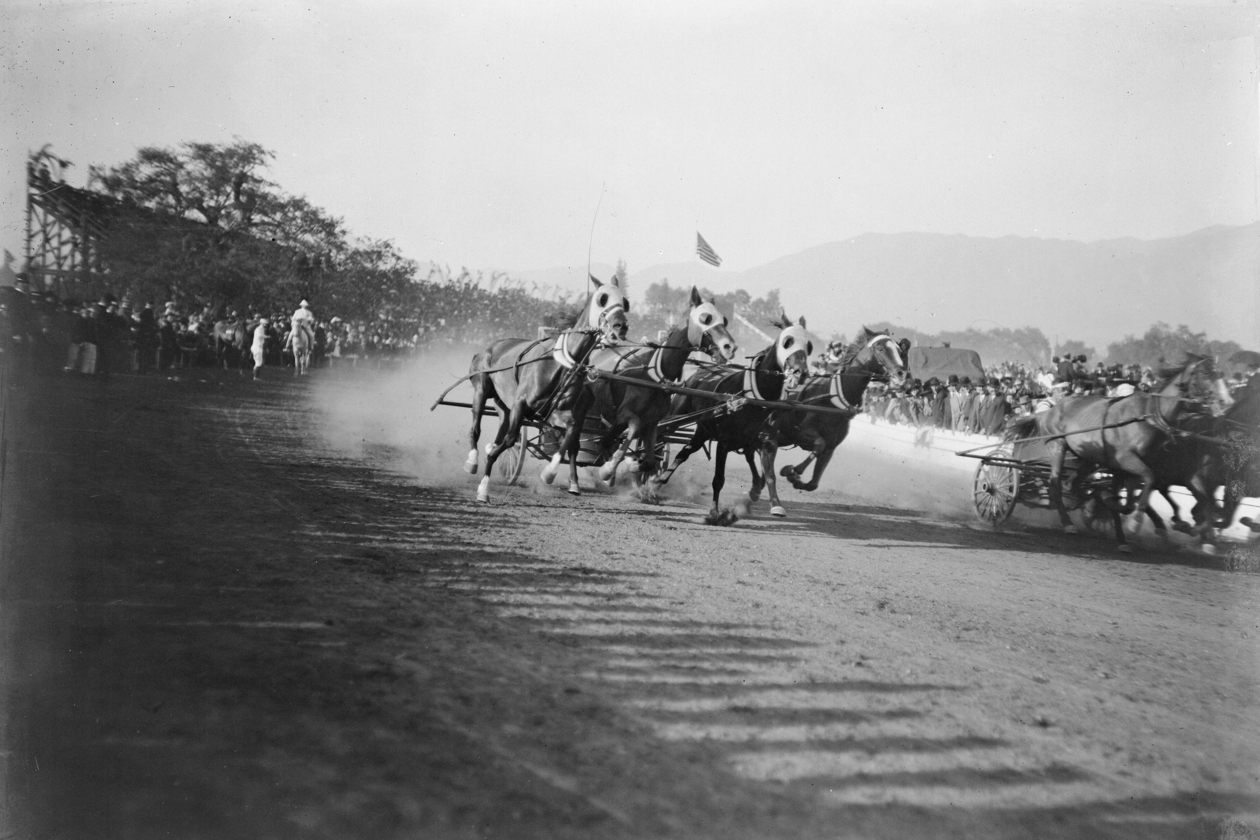 Pasadena Tournament of Roses chariot race, 1911 Photograph of chariot races at the Pasadena Tournament of Roses celebration which, for many years, was a regular feature of the festival on New Year's Day, 1911. Two four-horse chariots are rounding a curve in the foreground. A large number of people crowd a grandstand in the background as well as the area just outside of the racing track. An American flag is flying in the distance. Mountains are visible in the background. Call number: CHS-309 Filename: CHS-309 Coverage date: 1911 Part of collection: California Historical Society Collection, 1860-1960 Format: glass plate negatives Type: images Geographic subject (city or populated place): Pasadena; Pasadena Repository name: USC Libraries Special Collections Accession number: 309 Microfiche number: 1-37-14 Archival file: chs_Volume72/CHS-309.tiff Part of subcollection: Title Insurance and Trust, and C.C. Pierce Photography Collection, 1860-1960 Repository address: Doheny Memorial Library, Los Angeles, CA 90089-0189 Geographic subject (country): USA Format (aacr2): 2 photographs : glass photonegative, photoprint, b&w ; 13 x 18 cm. Rights: Digitally reproduced by the USC Digital Library; From the California Historical Society Collection at the University of Southern California Subject (adlf): sports facilities Project: USC Repository Contributing entity: California Historical Society Date created: 1911 Publisher (of the digital version): University of Southern California. Libraries Format (aat): photographic prints; photographs Geographic subject (state): California Subject (file heading): Festivals and parades -- Rose Parade -- General Legacy record ID: chs-m11230; USC-1-1-1-11380 Access conditions: Send requests to address or e-mail given. Phone (213) 821-2366; fax (213) 740-2343. Geographic subject (county): Los Angeles Subject (lcsh): Parades; Chariots Subject: Tournament of Roses